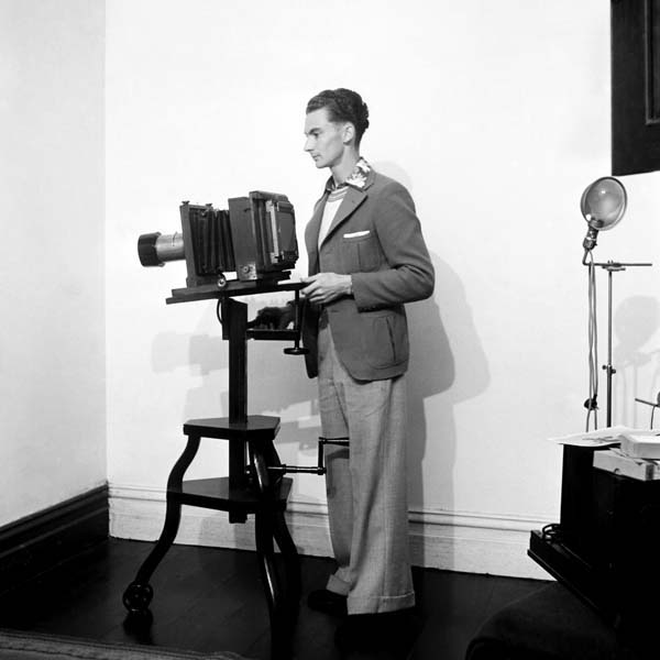 George Caddy with 1870's Dallmeyer studio camera